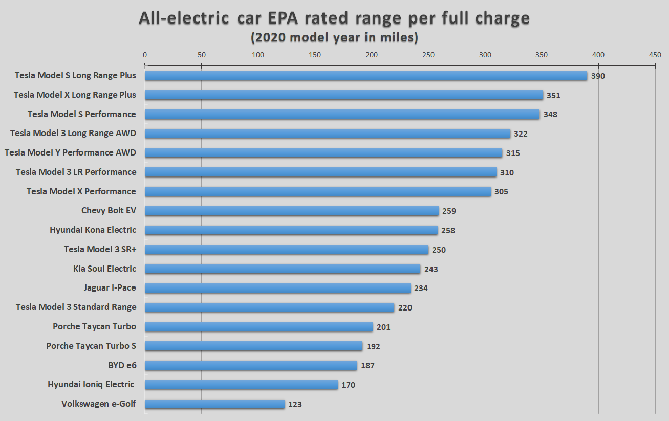 Made in Excel. Possible additions before the end of 2020: Rivian R1T: "up to 400+ miles" Ford Mustang Mach-E: 210, 230, 250, 270, 300 miles 2020 BMW i3 (126 to 153 miles) not on sale in the US yet. 2020 Nissan Leaf, 40 kWh (149 miles), 62 kWh (215 or 226 miles) not on sale in the US yet? Not on yet 2020 Kia Niro EV (239 miles) not on sale yet. FIAT 500e discontinued for 2020.